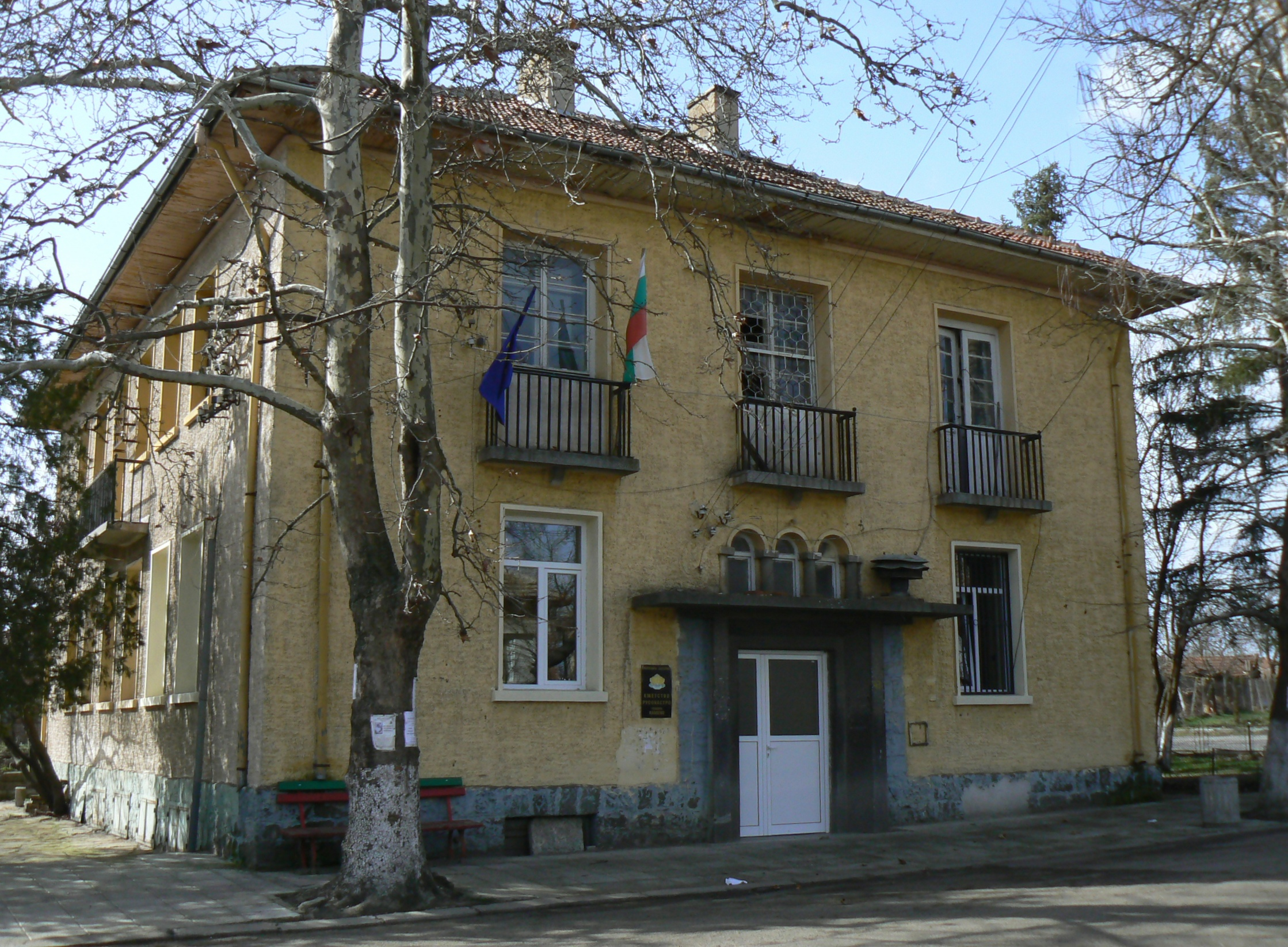 The mayors office of village Rusokastro, Burgas District, Bulgaria